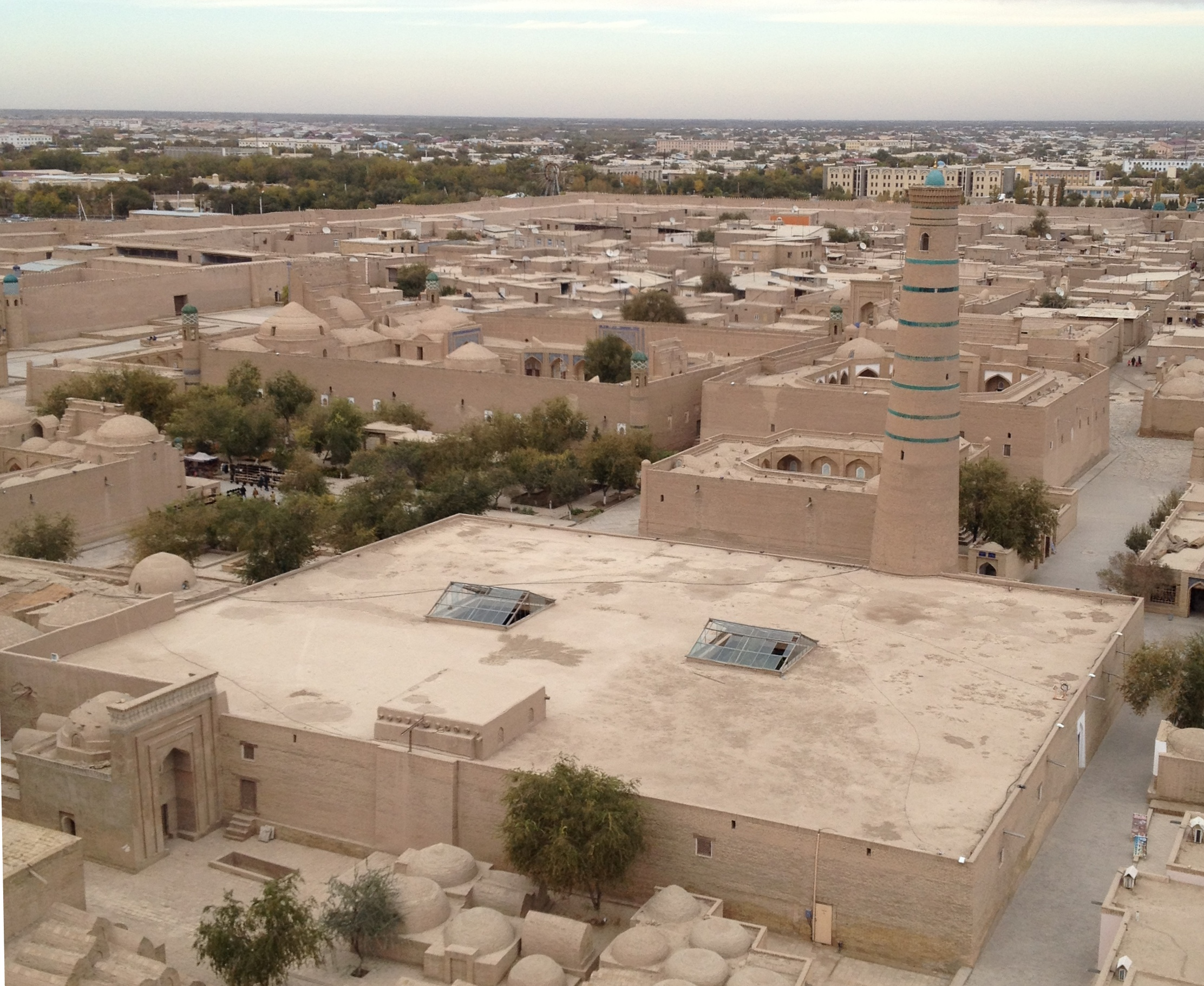 Friday Mosque, Khiva